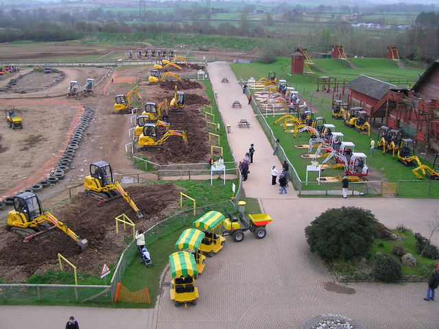 Diggerland. HE Services theme park dedicated to all things "Digger".